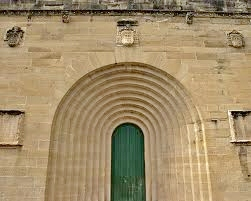 pppopop